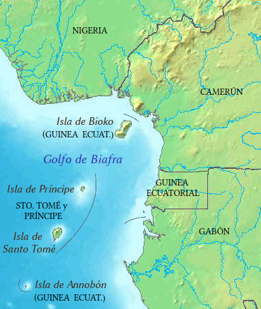 Map of Equatorial Guinea in Spanish